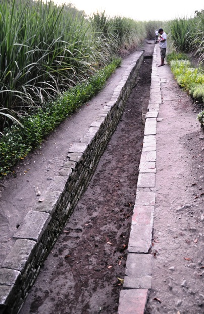 Part of ancient canal found in Trowulan, located ca. 300 m south west of Trowulan Museum.